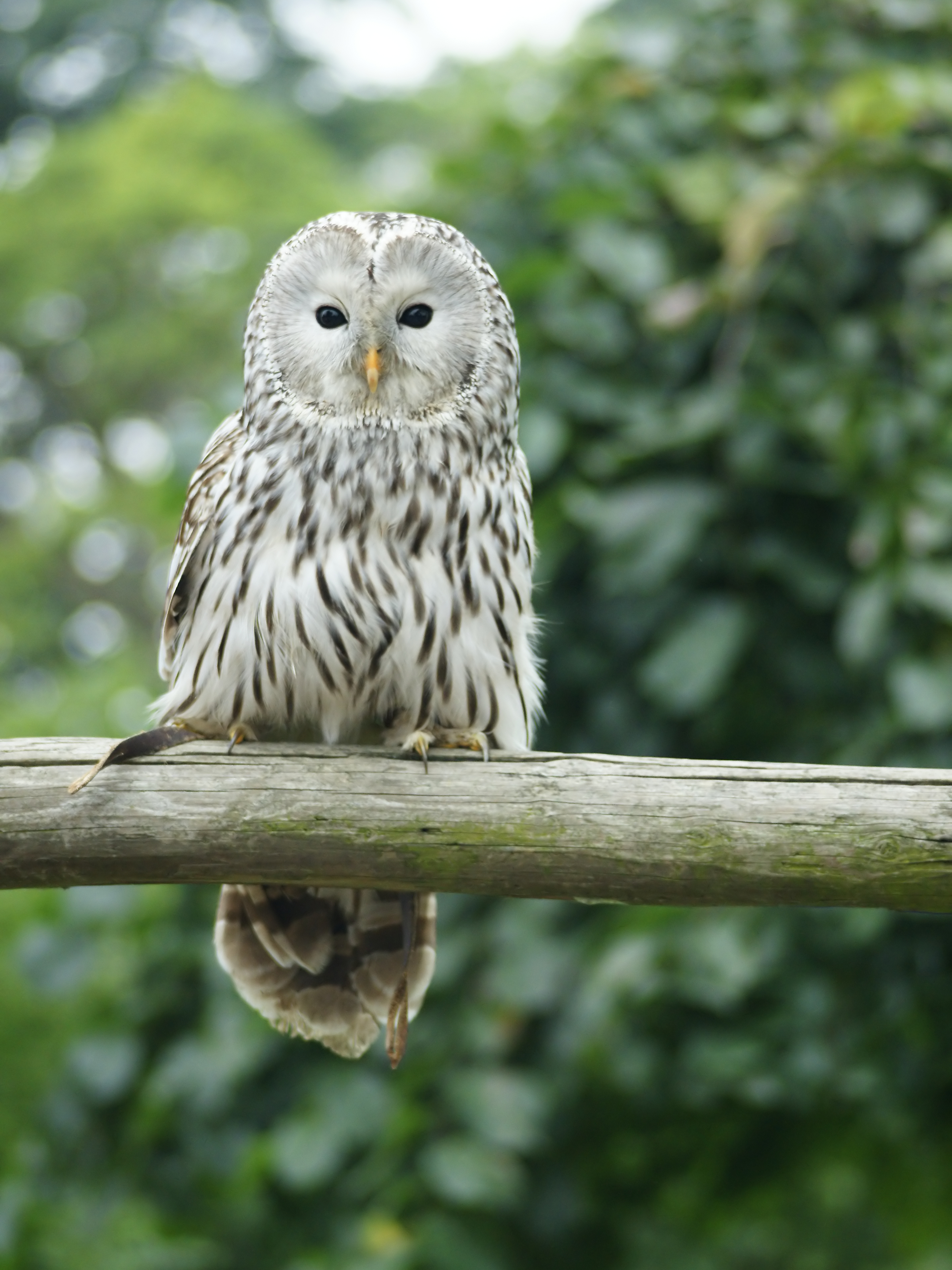 An Ural Owl, at Pairi Daiza, Brugelette, Belgium.